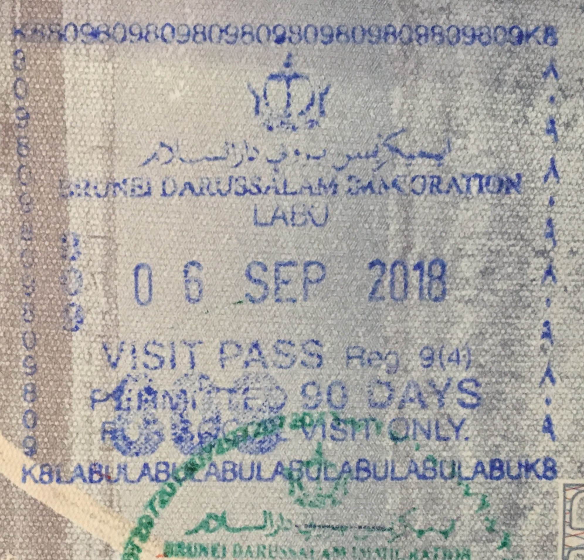 Entry stamp into Brunei Darussalam at the Labu, Temburong land border crossing, 90 days on arrival on 06 Sep, 2018.